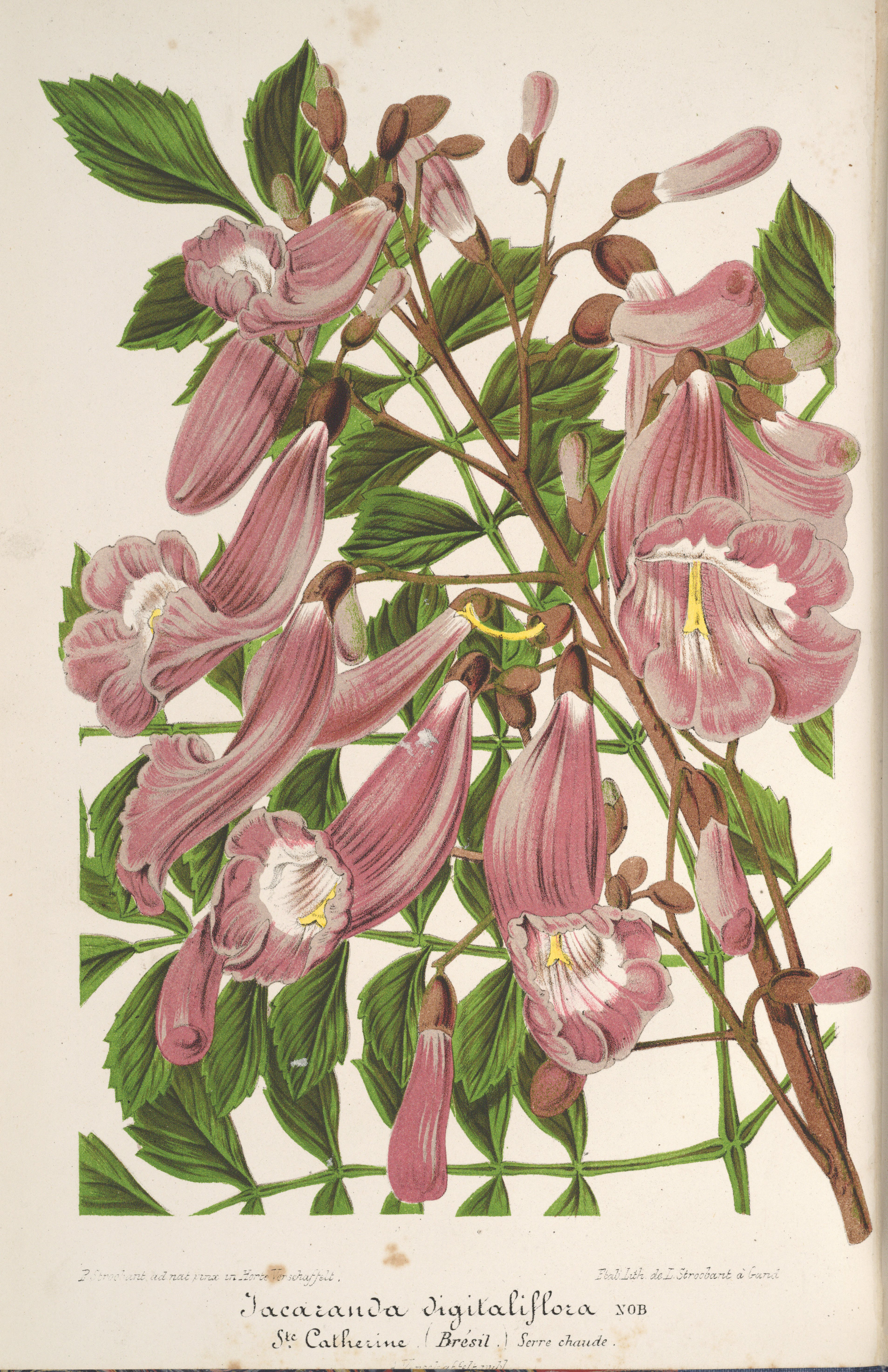 Jacaranda puberula, as Jacaranda digitaliflora